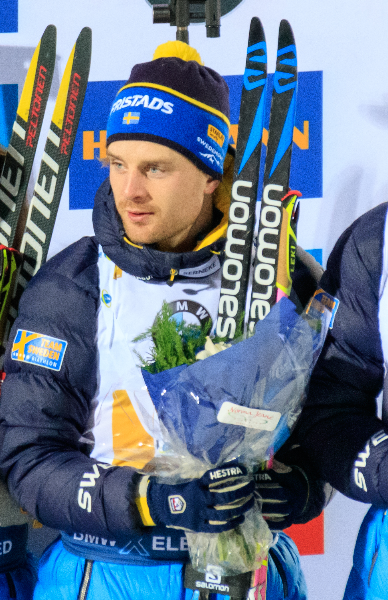 Jesper Nelin in Östersund 2019